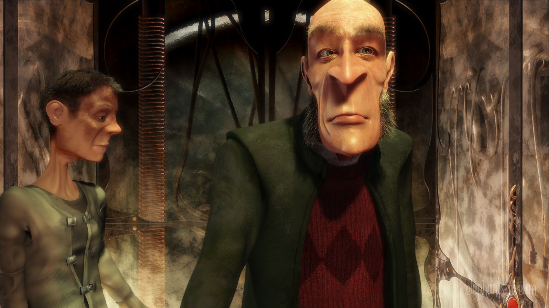 Image from the film Elephants Dream.